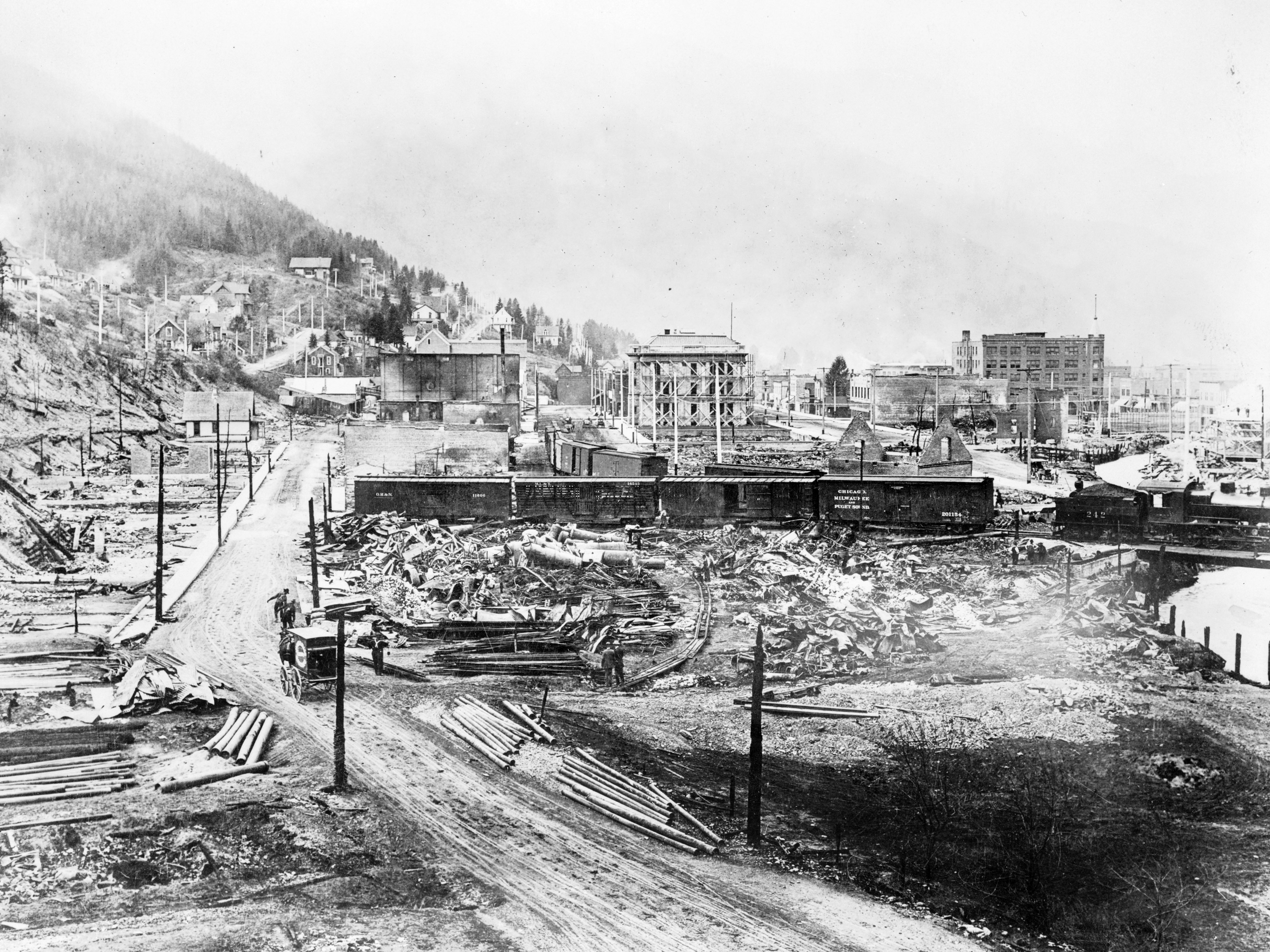 TITLE: Idaho--Walace [i.e. Wallace] destroyed by forest fires, 1915 CALL NUMBER: LOT 12352-8 REPRODUCTION NUMBER: LC-USZ62-100916 (b&w film copy neg.) RIGHTS INFORMATION: No known restrictions on publication. SUMMARY: Overview of the city and buildings destroyed by fire. CREATED/PUBLISHED: 1915. NOTES: No. 644, National Photo Company Collection. DIGITAL ID: (b&w film copy neg.) cph 3c00916 CONTROL #: 90715594